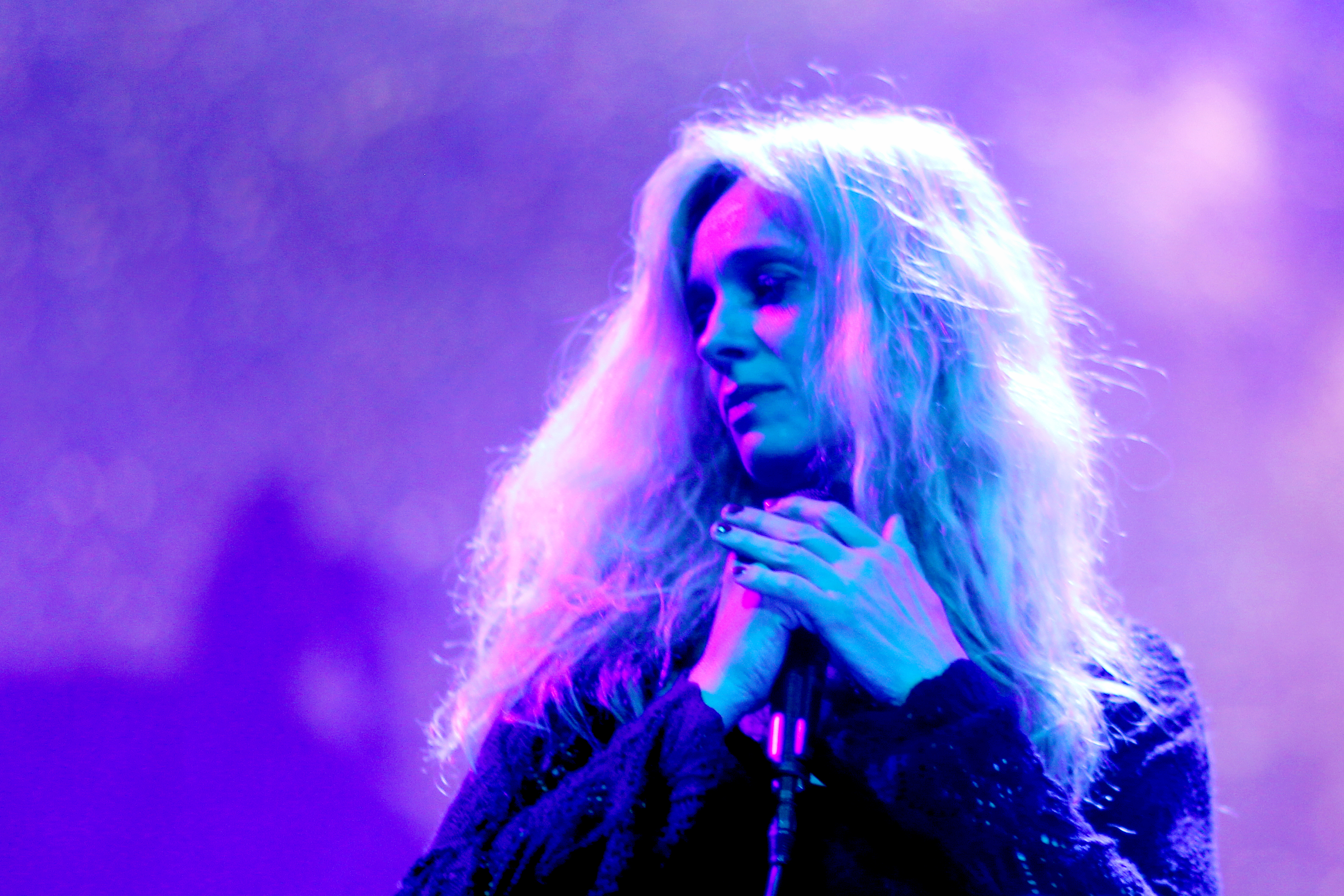 The Italian neo-classic dark wave band Ataraxia at the Wave-Gotik-Treffen 2018 in Leipzig/Germany (Venue Schauspielhaus).